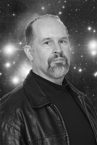 A photo of write Timothy Zahn